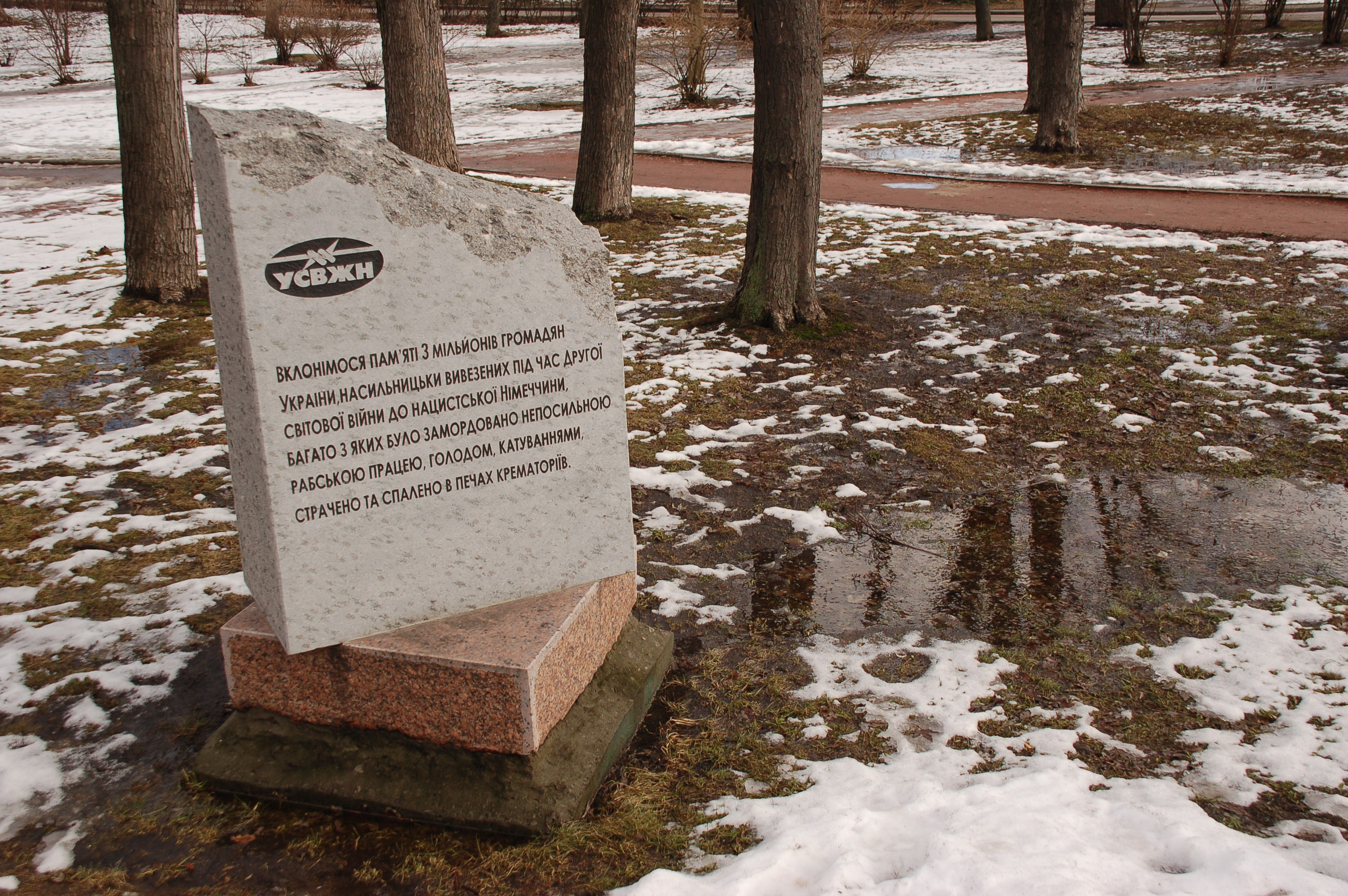 Monument to the murdered ones during the German ocupation of Ukraine during the Second World War, Babi Yar, Kiev